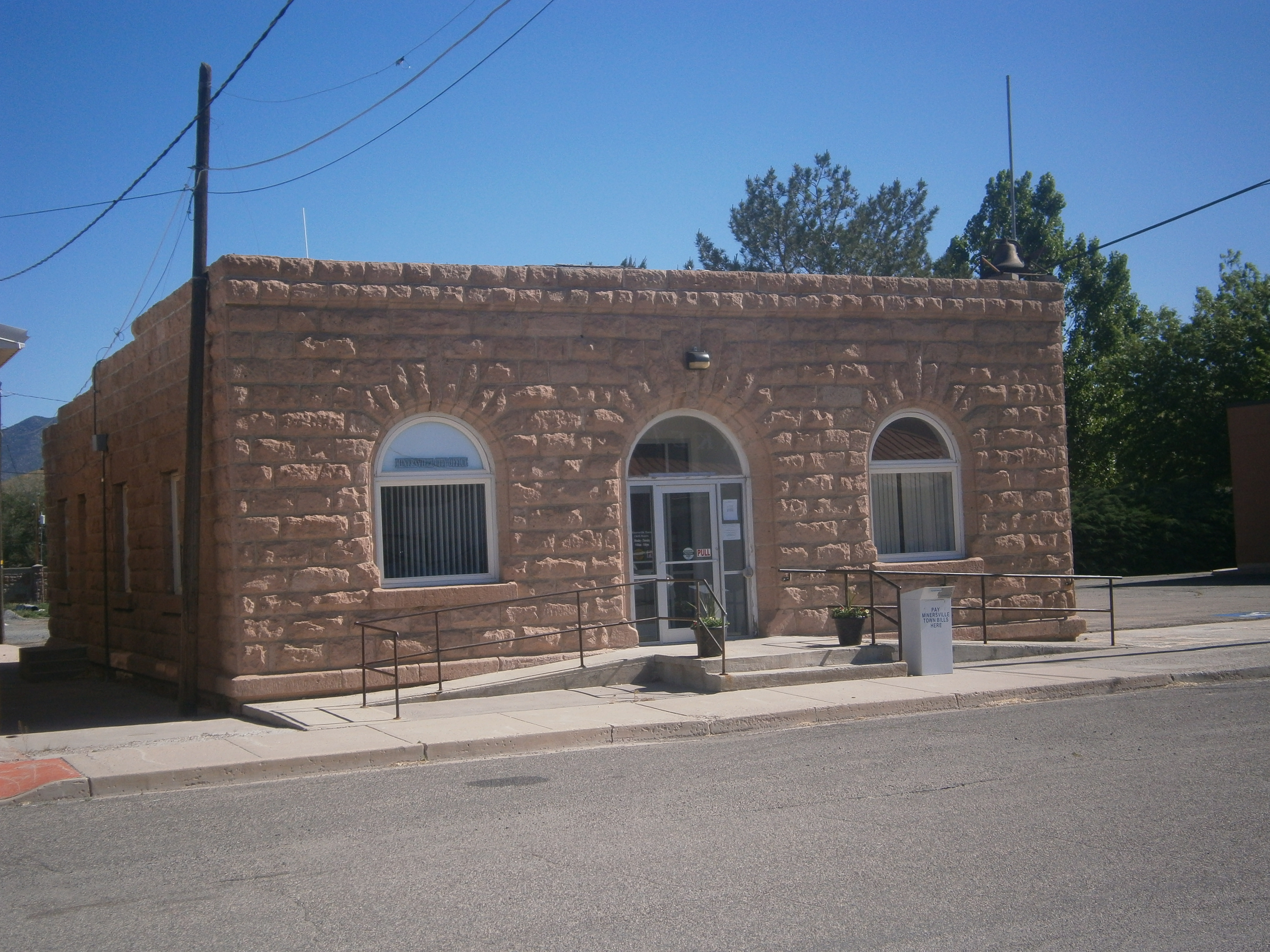 The historic town hall of Minersville, Utah, United States.